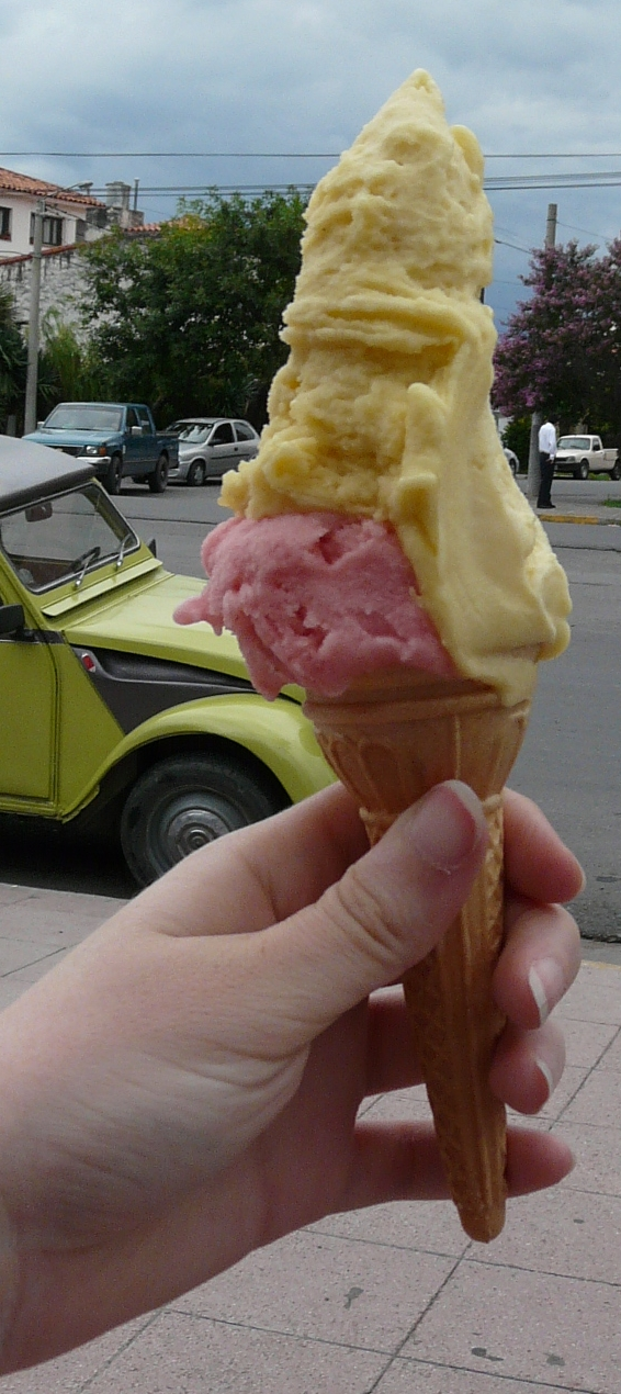 Argentinean small-sized ice cream cone